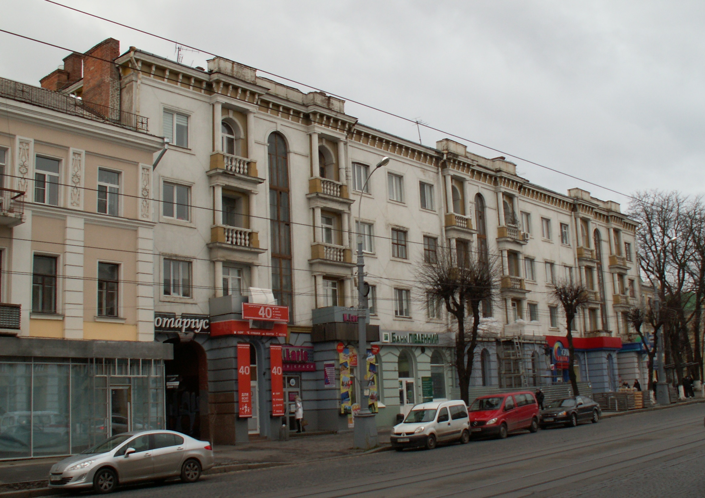 Vinnytsya, Soborna str. 81. Built upon the project of L. Cherliniovskiy.